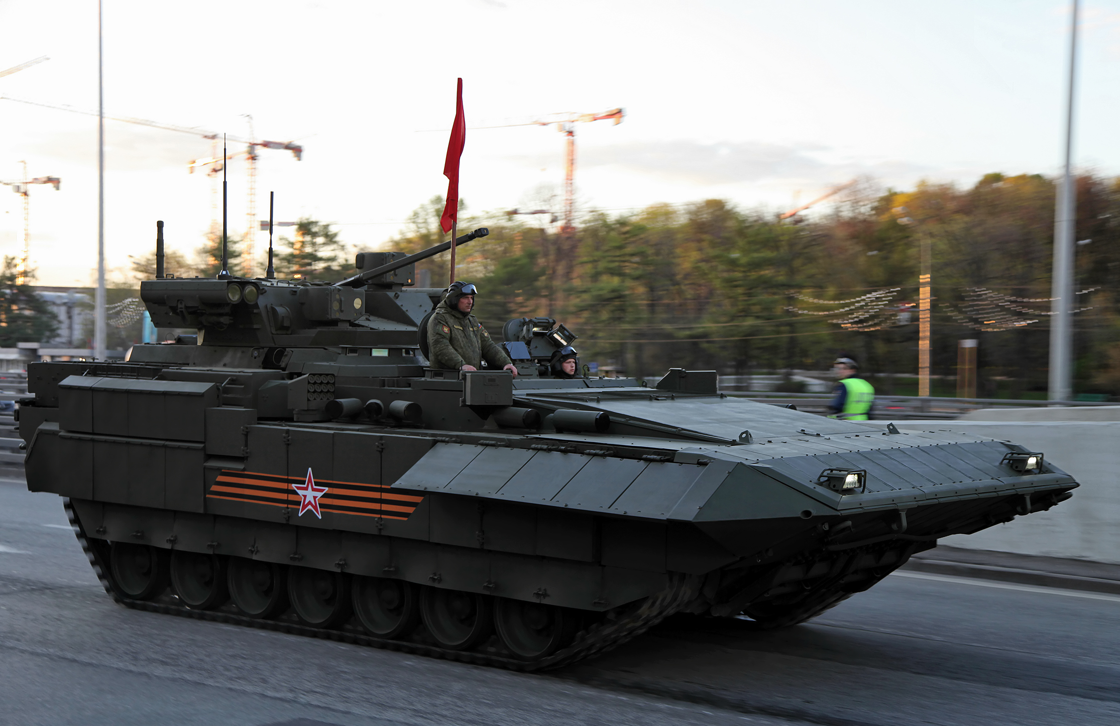 Heavy IFV T-15 object 149 Armata